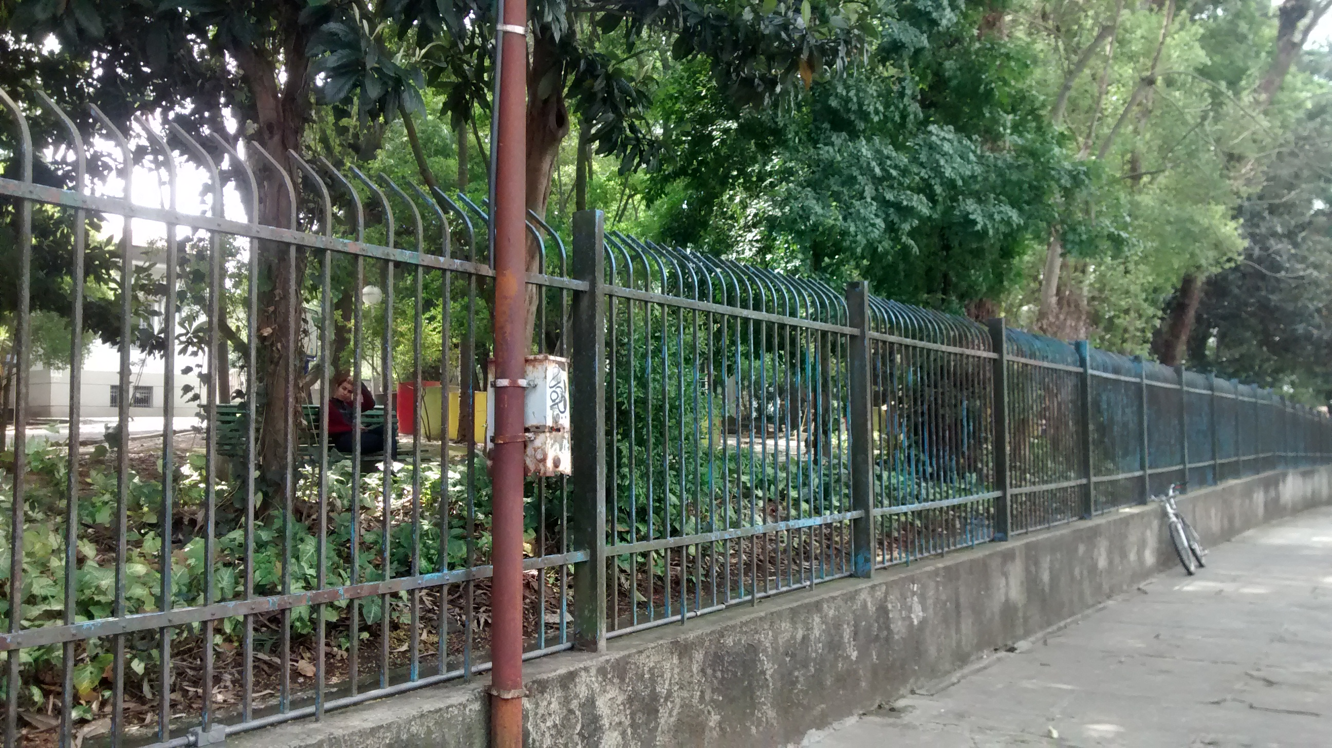 Imagem externa do Reservatório do Sumaré vista da Avenida Professor Alfonso Bovero, em São Paulo (SP), Brasil.